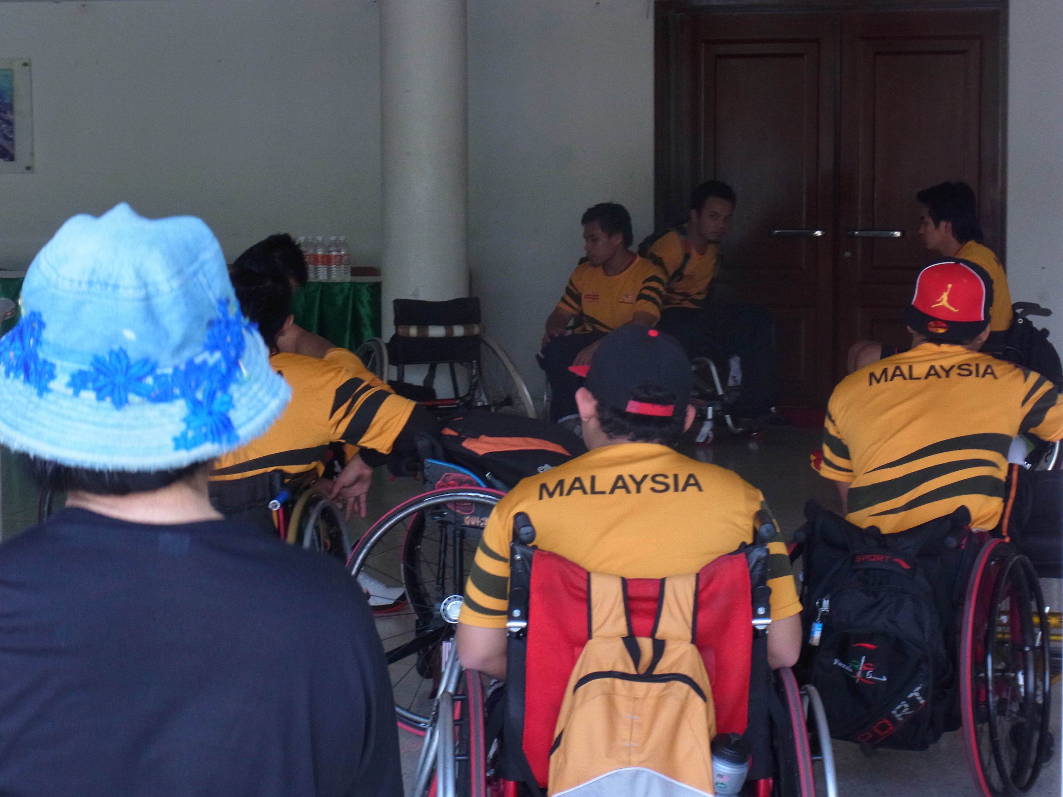 Malaysian mens wheelchair basketball team 2013